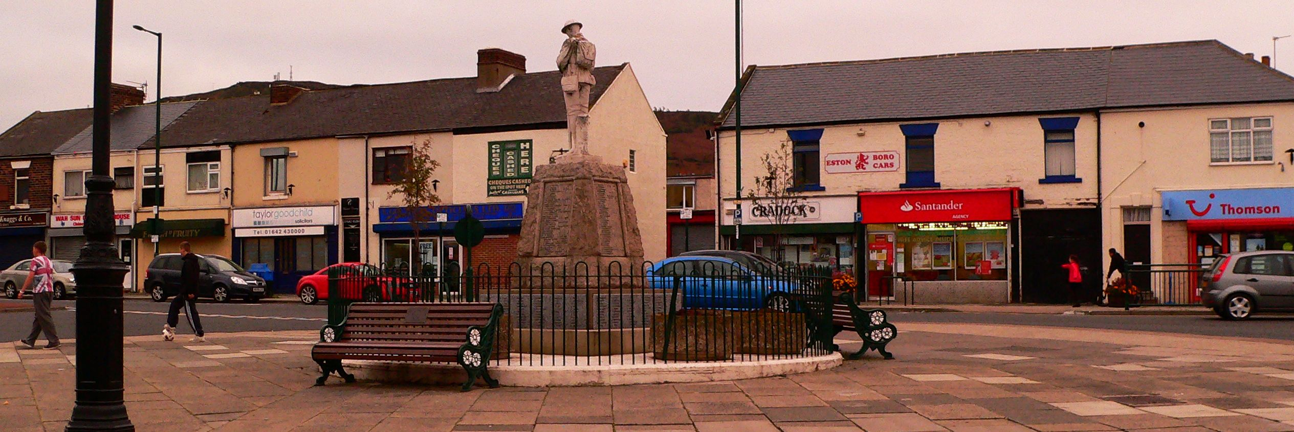 Eston Square